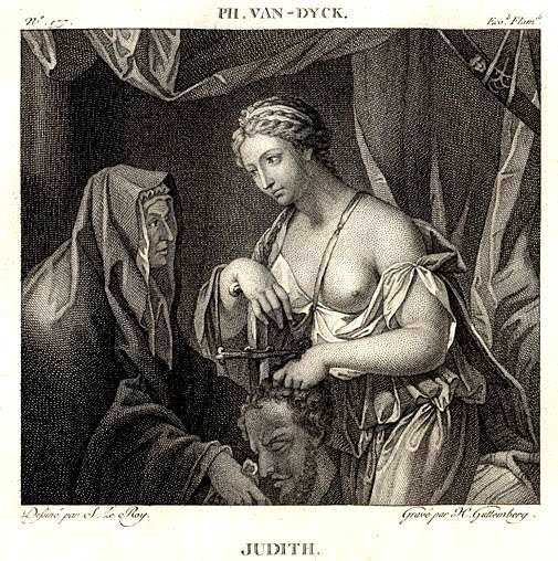 Judith und Holofernes, nach Philipp van Dijck